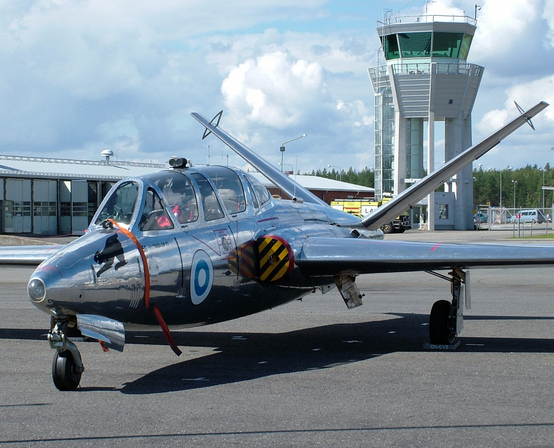 Former Finnish Air Force CM 170 Fouga Magister aircraft (OH-FMM) at Joensuu Airport. The airport tower in the background.